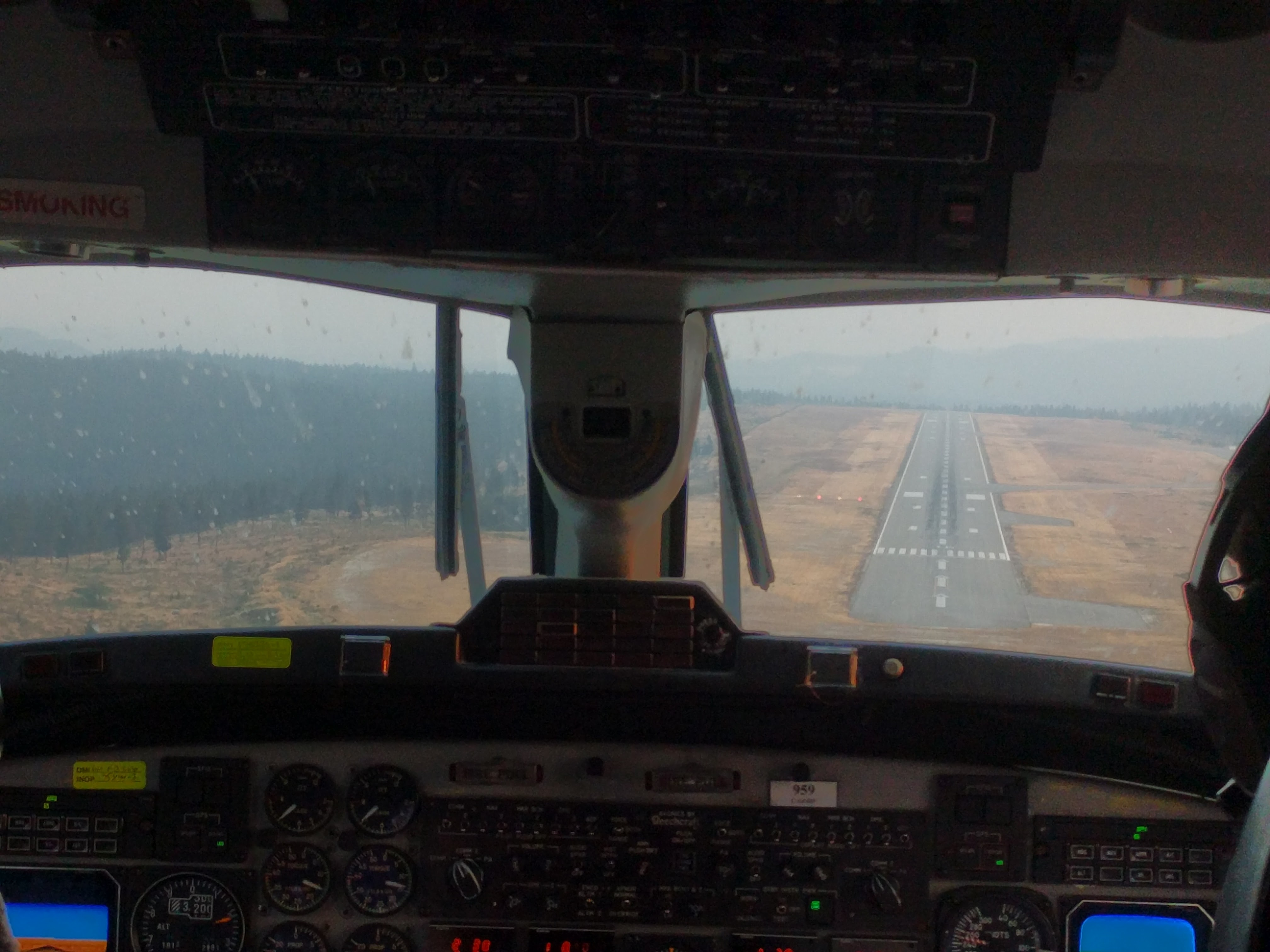 The runway of the Cranbrook airport coming from the North